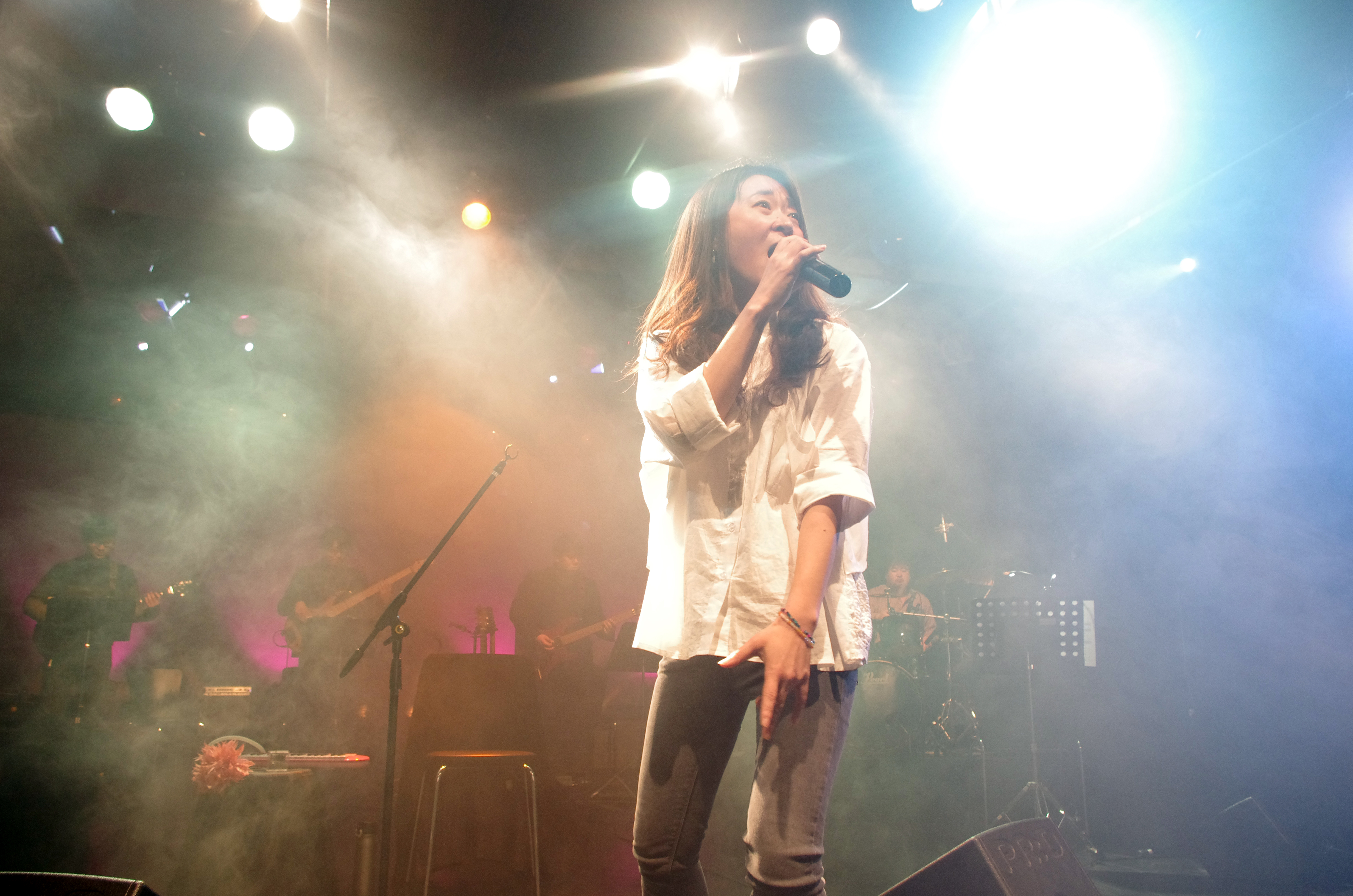 Im jeong-deuk